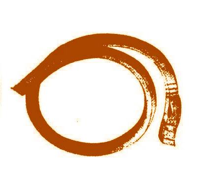 Gold snake-headed no spiralized bracelets ancient Dacia, found at Totesti - Hateg Romania